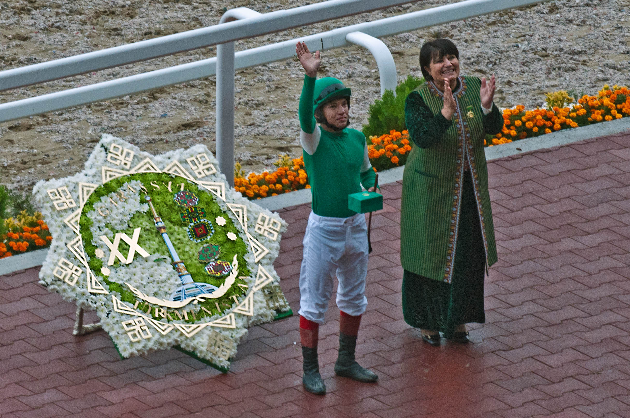 Akdja Nurberdiyeva, Opening of the Ahal Velayat Equestrian Complex